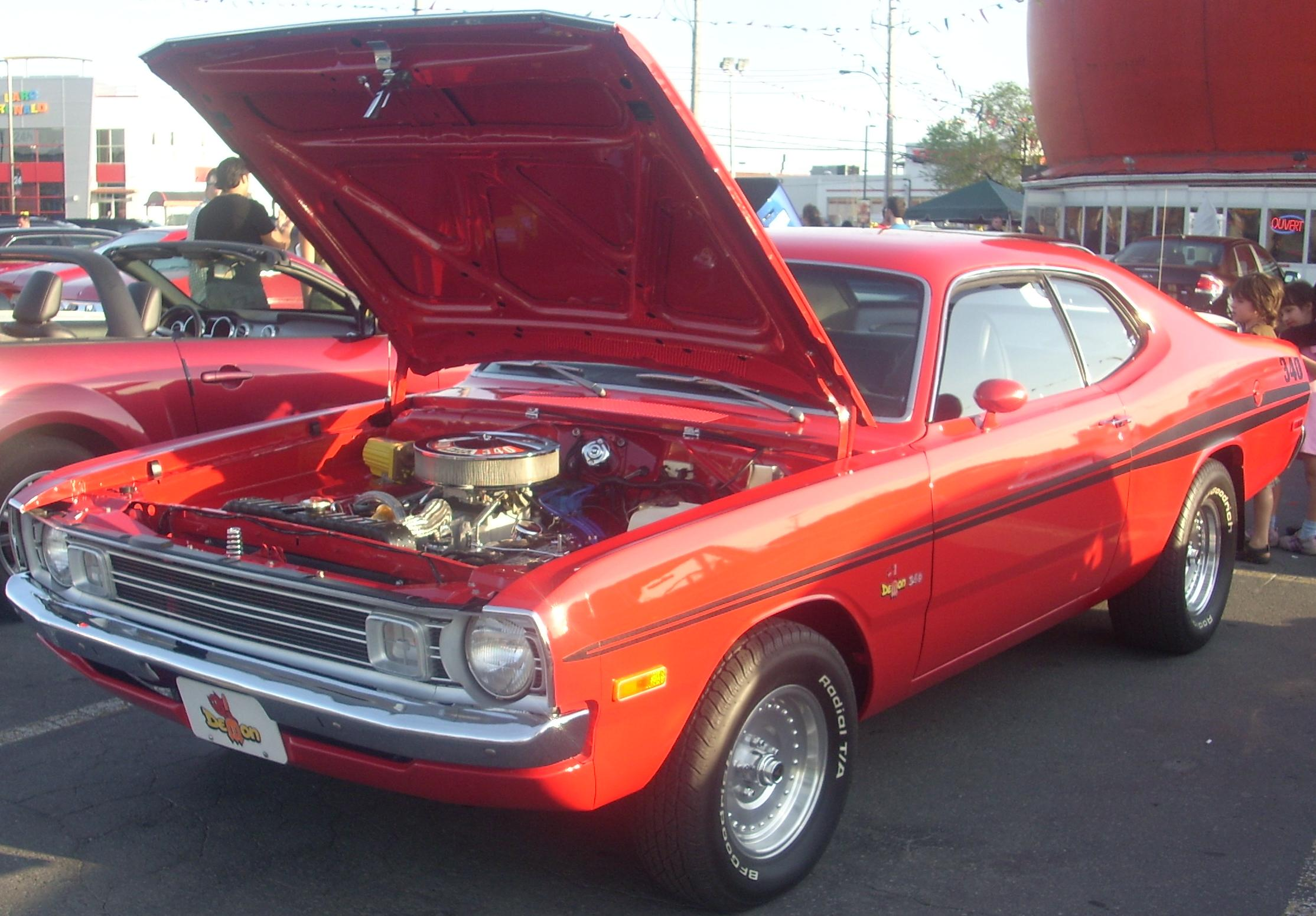 Dodge Demon photographed in Montreal, Quebec, Canada at Gibeau Orange Julep.